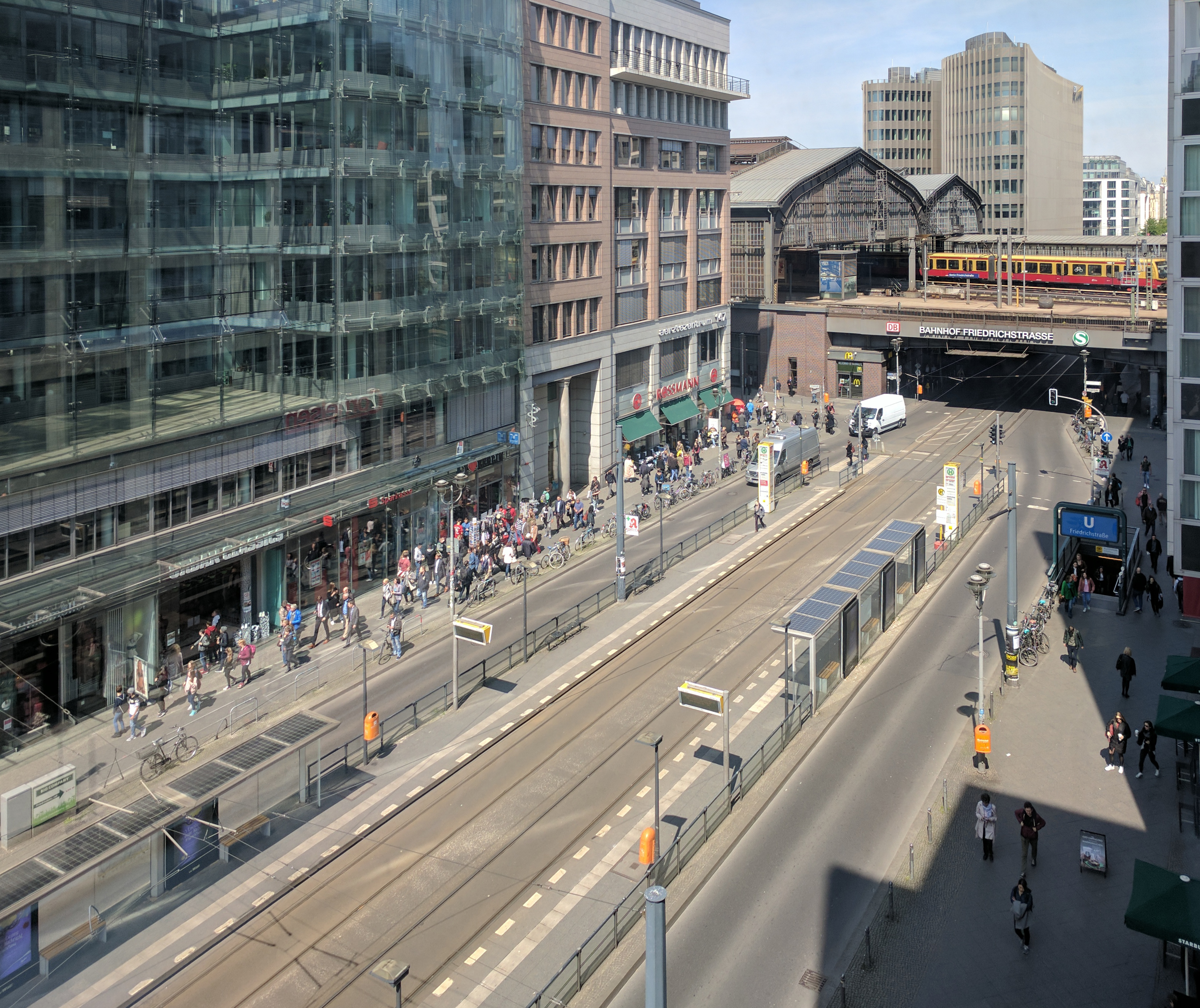 View on the Friedrichstraße. Building on the left is number 147. Photo taken from the fourth floor of the Internationales Handelszentrum.